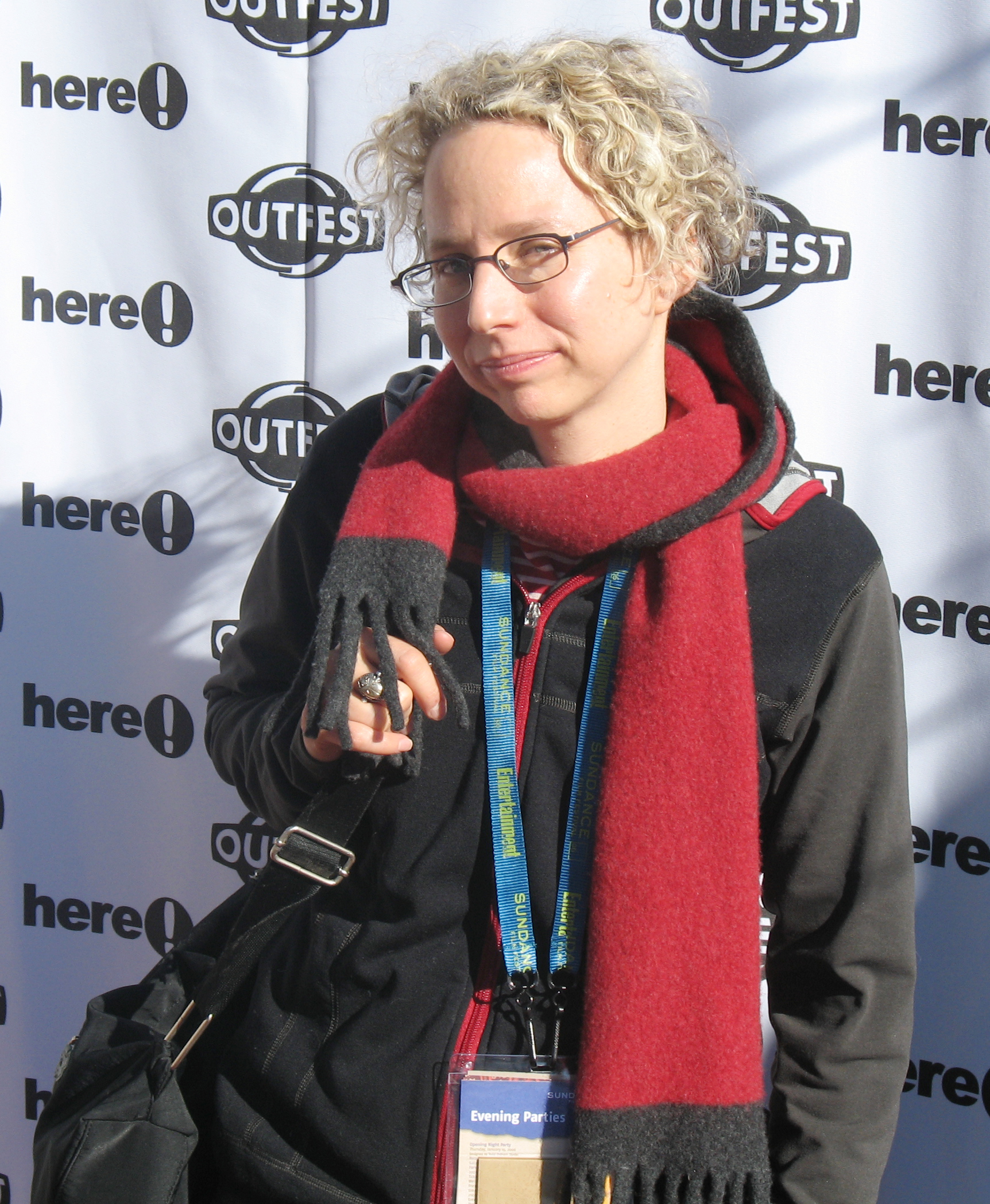 Director Jennie Livingston ("Through the Ice" "Paris is Burning") at the Here! Network/Outfest Queer Brunch during the Sundance Film Festival.